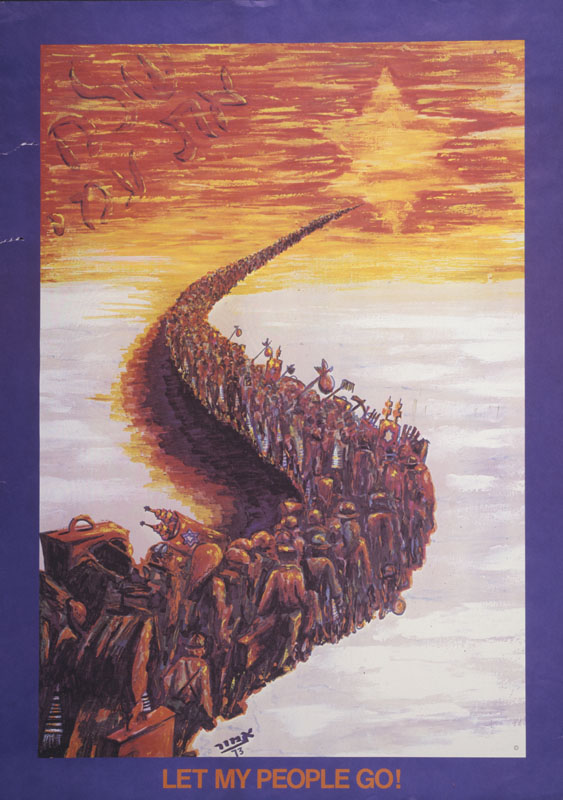 Description: Full color painting of Soviet Jewish exodus Creator: Emor (?) Medium: Poster, colored Date: undated Call Number: I-181.018 Collection: National Conference on Soviet Jewry Records Persistent URL: Repository: American Jewish Historical Society Rights Information: No known copyright restrictions; may be subject to third party rights. For more copyright information, click here. See more information about this image and others at CJH Digital Collections. To inquire about rights and permissions, or if you have a question regarding the collection to which the image belongs, please contact the Reference Department of the American Jewish Historical Society by email. Digital images created by the Gruss Lipper Digital Laboratory at the Center for Jewish History.